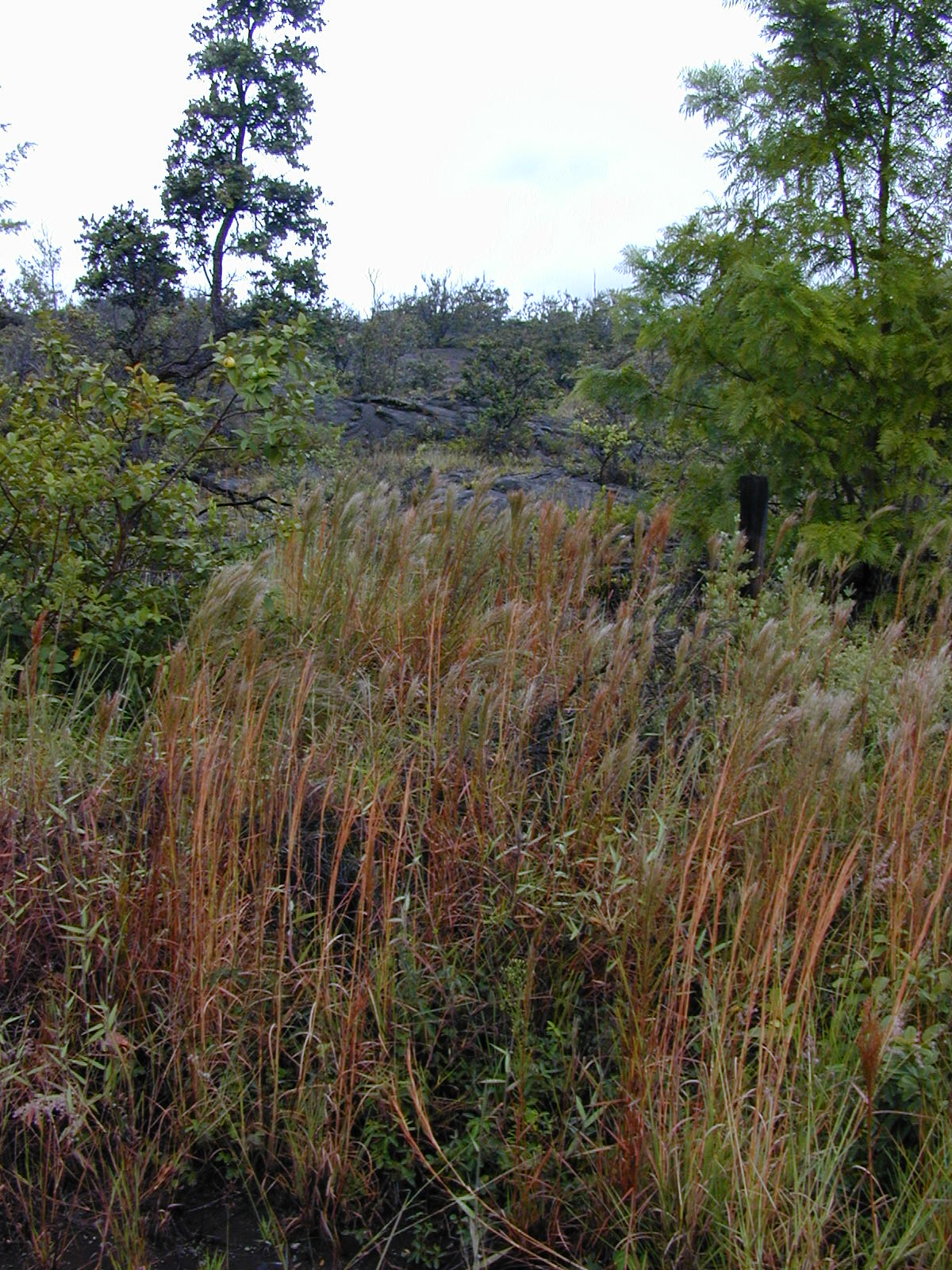 Schizachyrium condensatum (habit with ohias). Location: Maui, Havo Hawaii